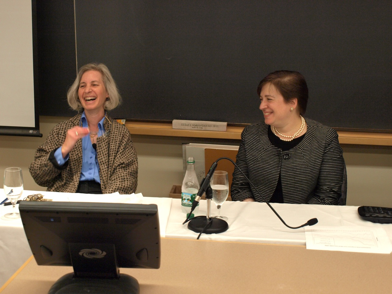 Elena Kagan '86 speaking at HLS in September 2009 as Solicitor General. Seen here with her successor as Dean, Martha Minow.